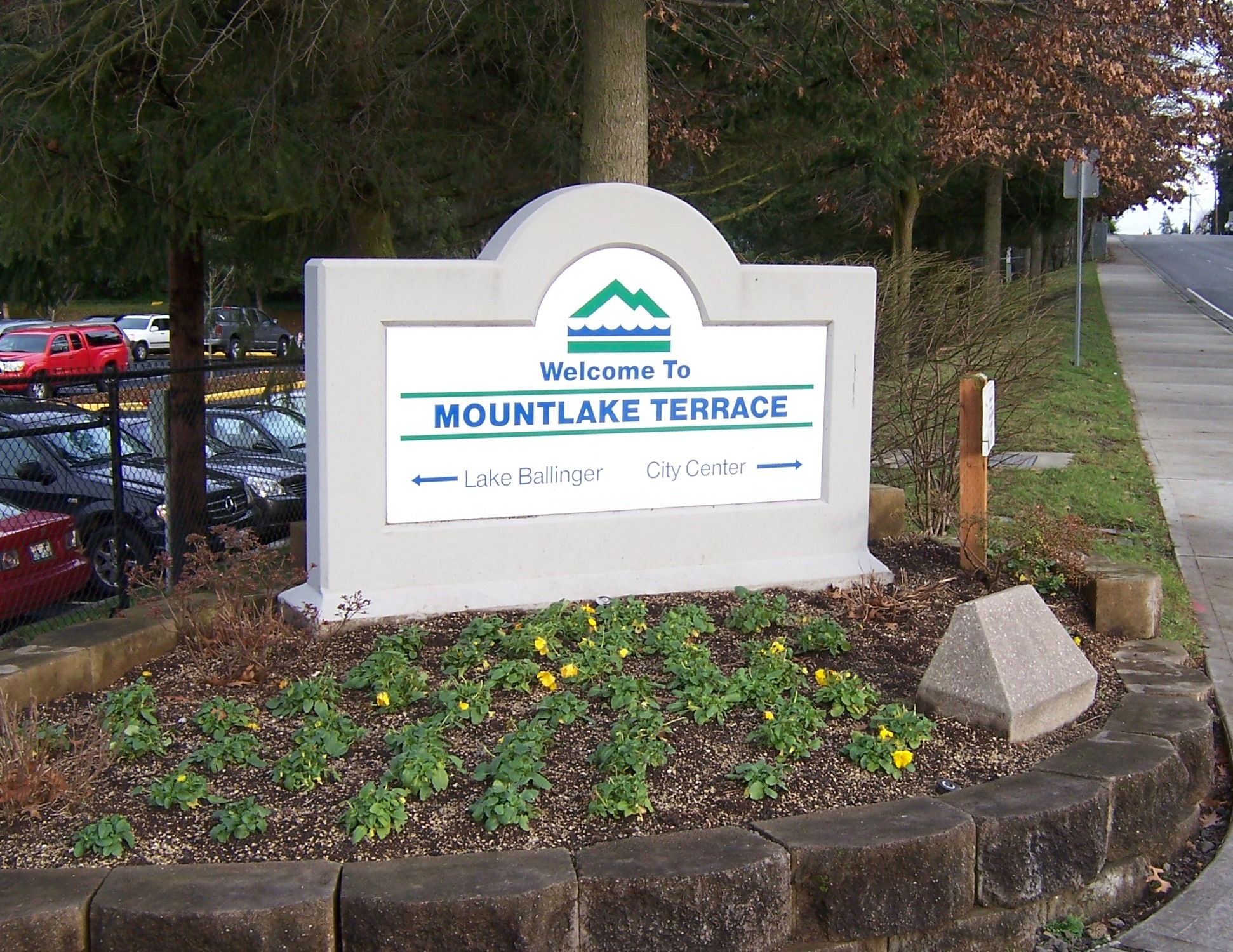 Mountlake Terrace, welcome sign at the Mountlake Terrace Transit Center